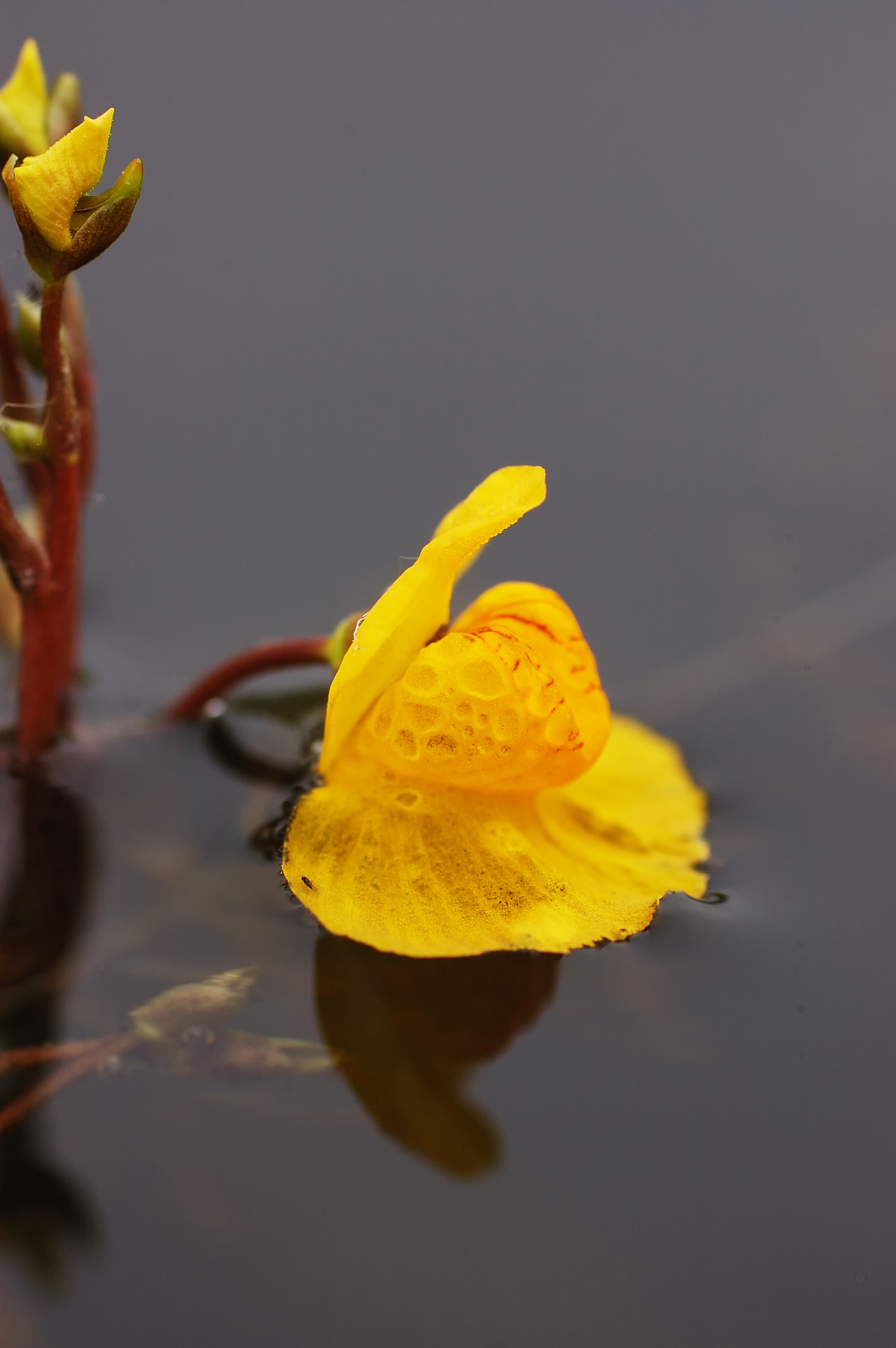 Flower of Common Bladderwort.